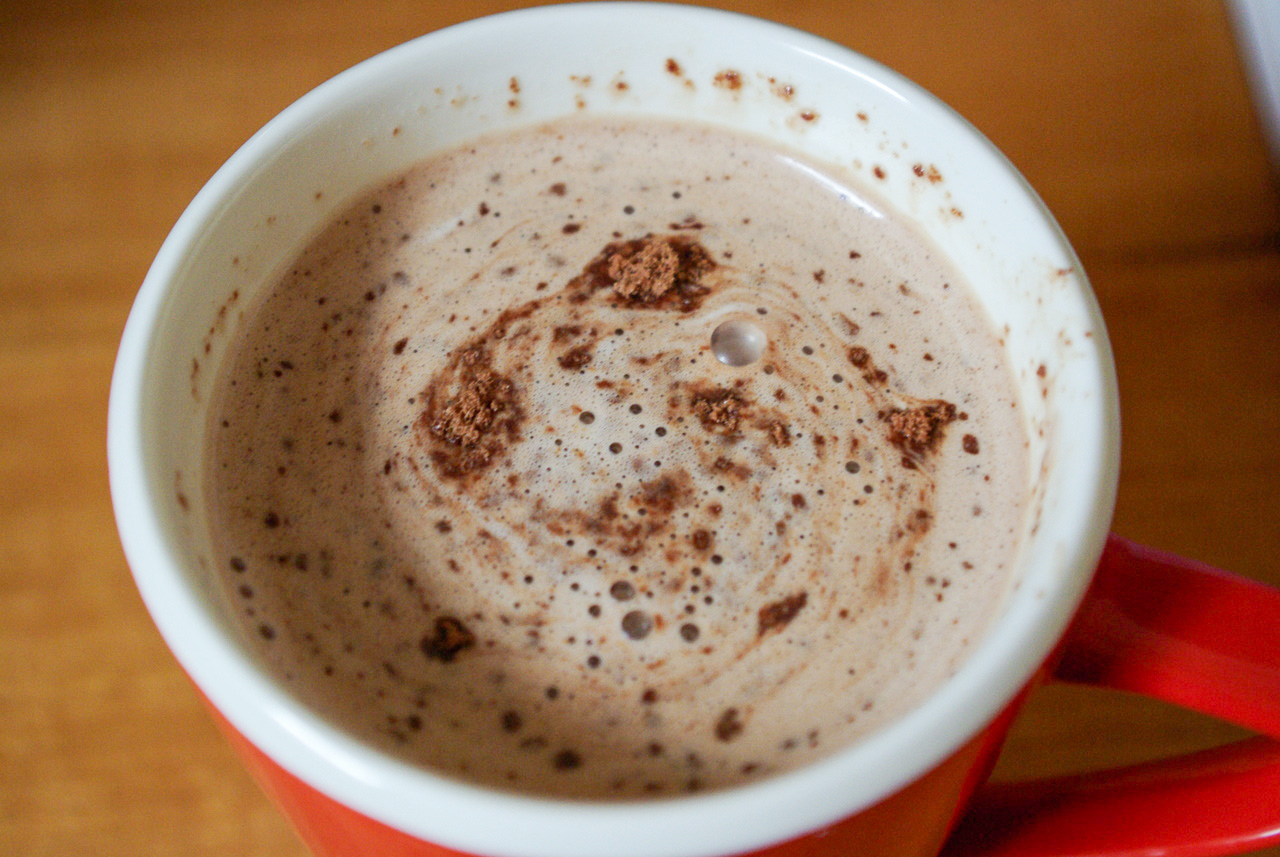 Cup of Australian Nestle Milo